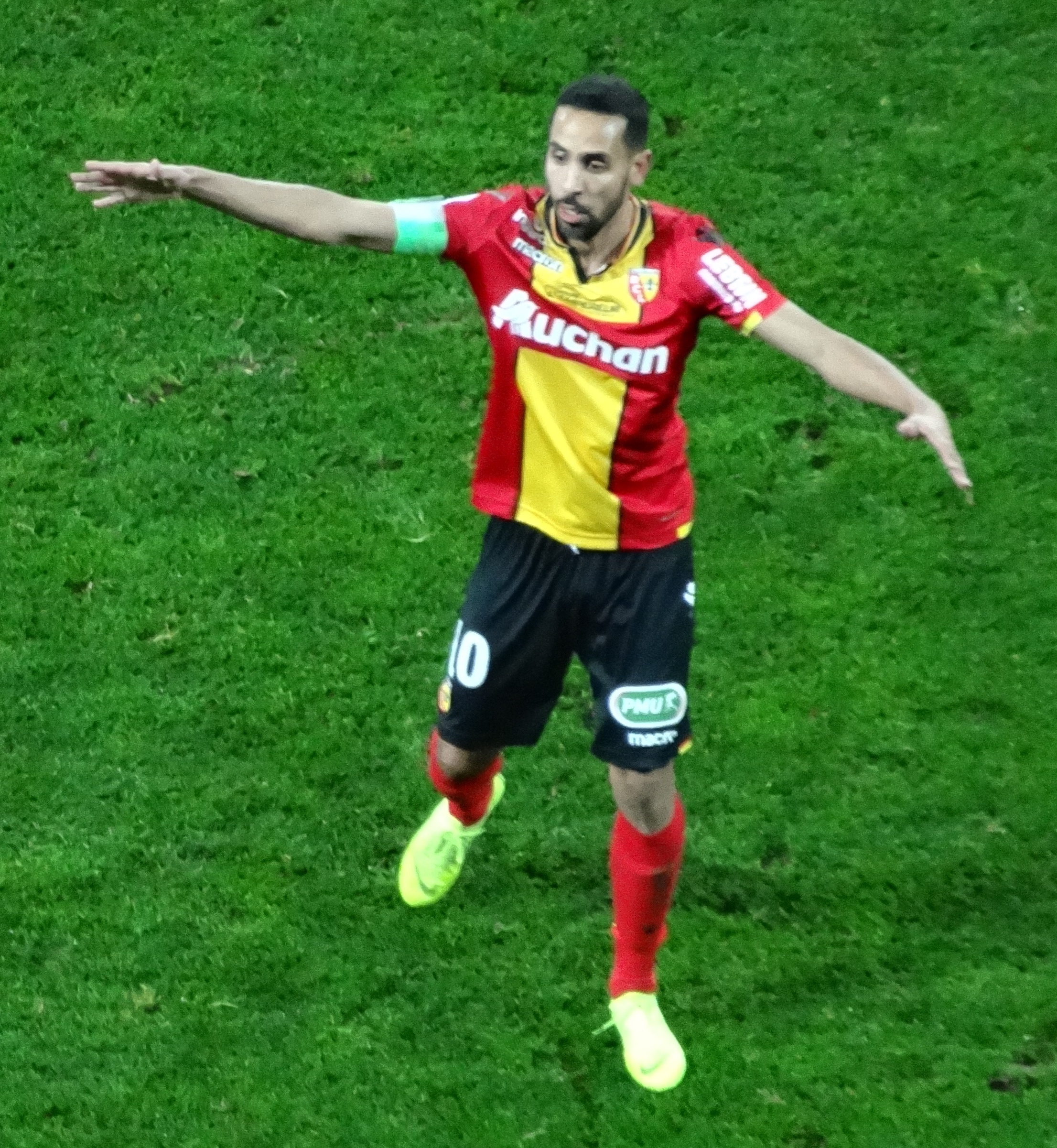 Walid Mesloub (RC Lens captain)